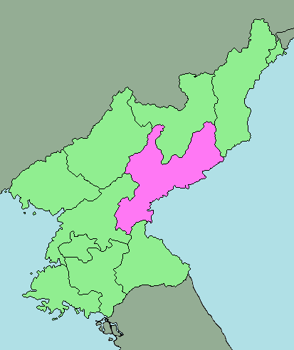 area map of Hamgyongnam Province